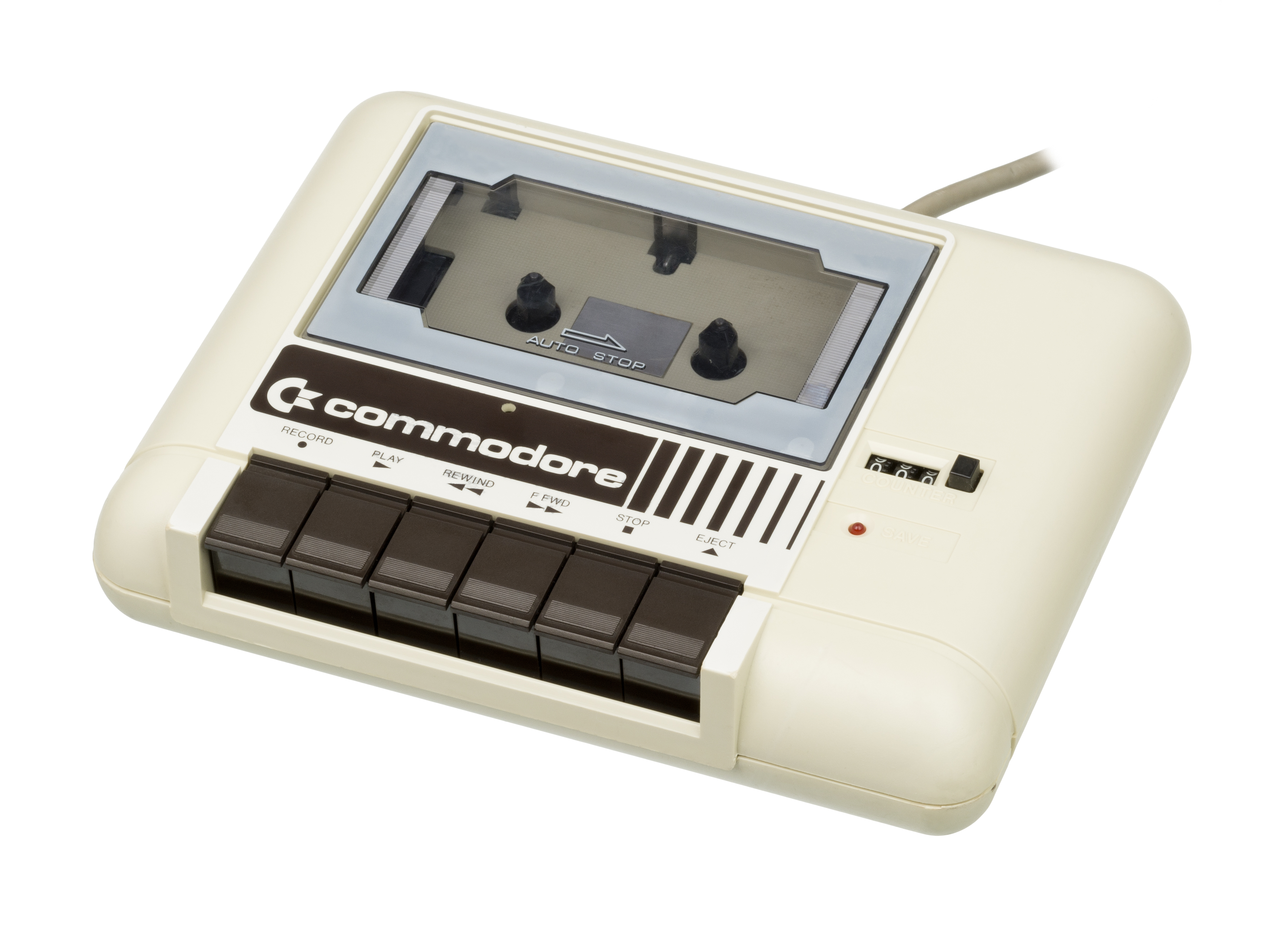 A Commodore 1530 (C2N) Datasette drive for the Commodore line of computers. This made it possible to save and run programs from inexpensive cassette tapes.